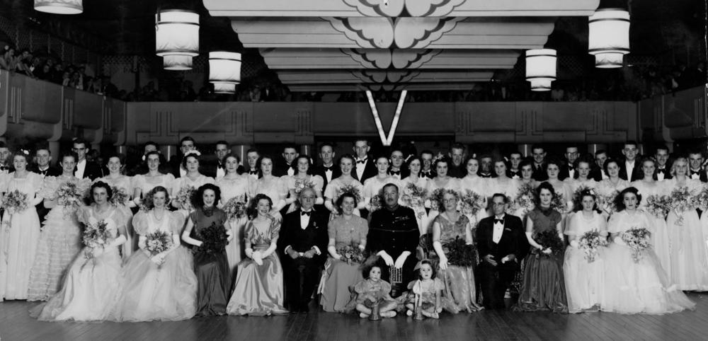 Creator: Unidentified Location:Brisbane, Queensland, Australia Description:The debutantes were presented to the Governor of Queensland, Sir Leslie Wilson. Flower girls seated at the front were Elaine Johnson and Merle Pringle. View this image at the State Library of Queensland: Information about State Library of Queensland’s collection